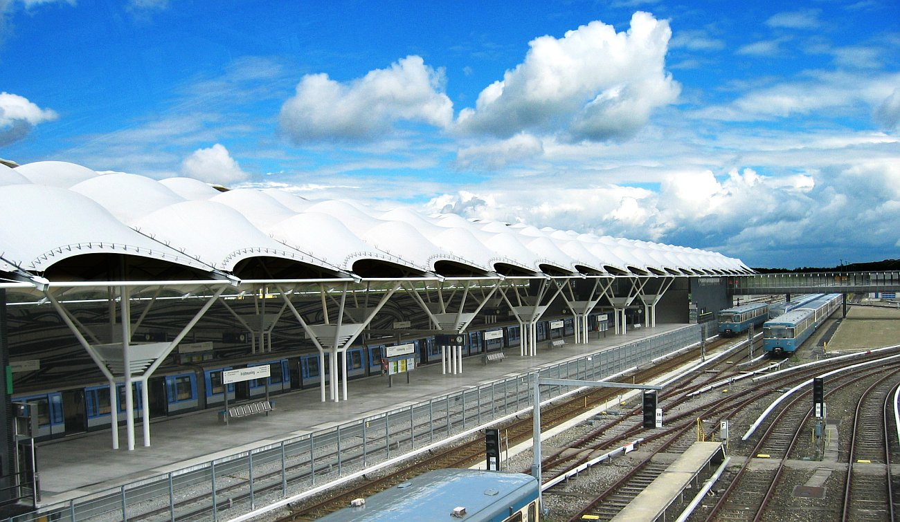 Munich subway station Fröttmaning (U6)